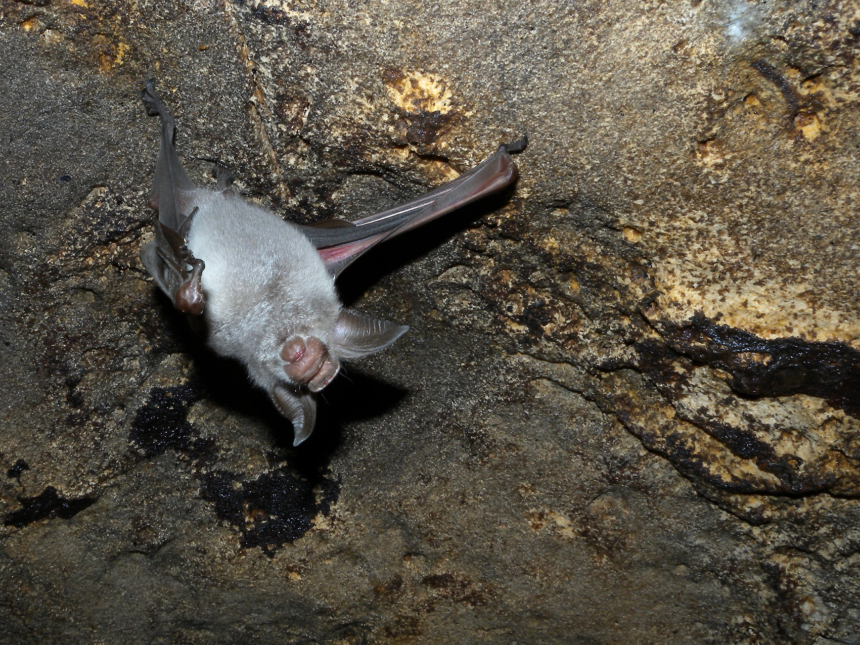 Commerson’s Leaf-nosed bat Hipposideros commersoni), Tsimanampetsotsa, Madagascar